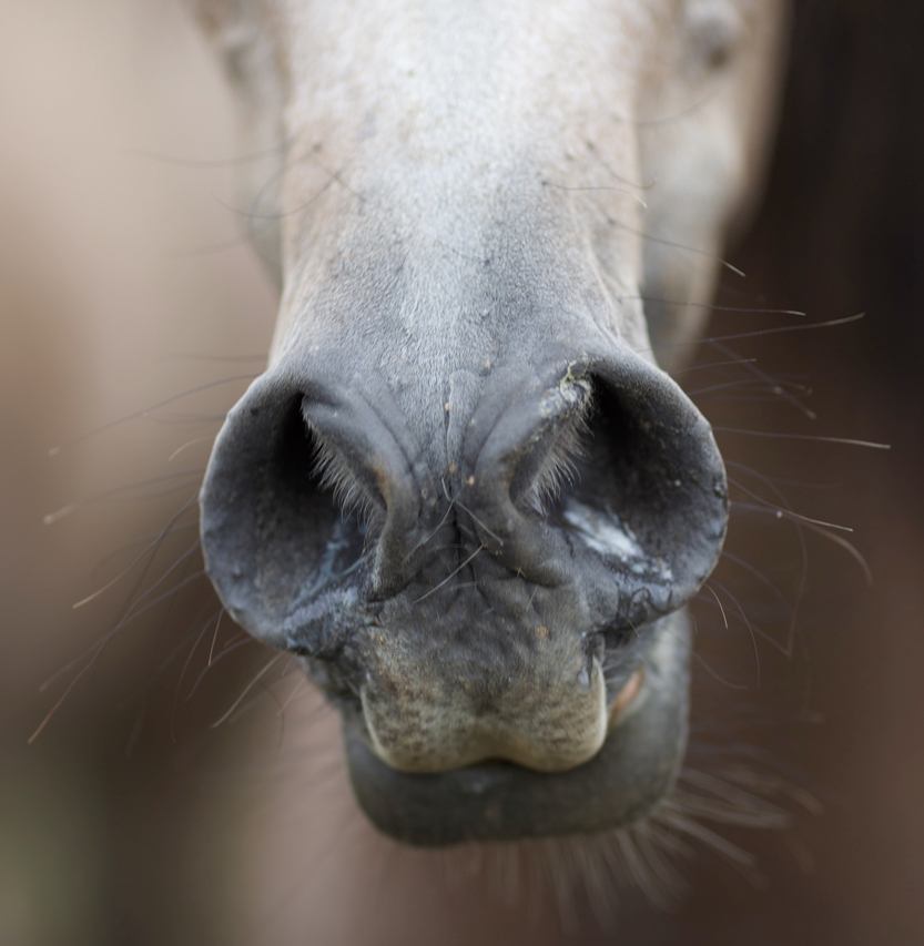 Arabian Horse | Simeon Stud | Australia